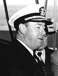 Photo #: 80-G-400437 Rear Admiral Francis X. McInerney, USN, Commander Cruiser Division Three, (left) With members of the American Ordnance Association on board USS Helena (CA-75), during a First Fleet demonstration cruise off the U.S. Pacific coast, 27 April 1949. The civilians present are Mr. J.S. Raven, of the U.S. Spring & Bumper Company, and Mr. W.J. Boyle, of O'Keefe & Merrit Rangeco.